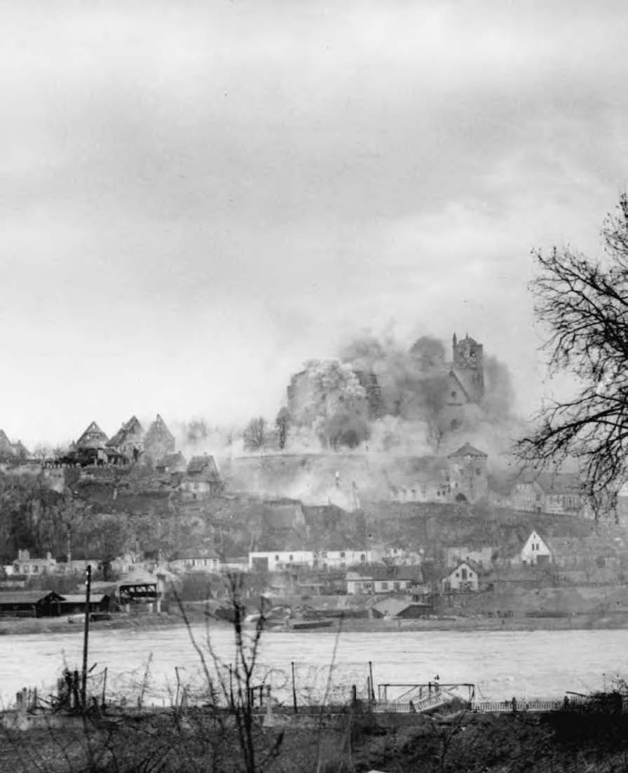 THE TOWN OF BREISACH, Germany, during a heavy artillery shelling as part of the Rhineland Campaign, World War II, 26 January–21 March 1945